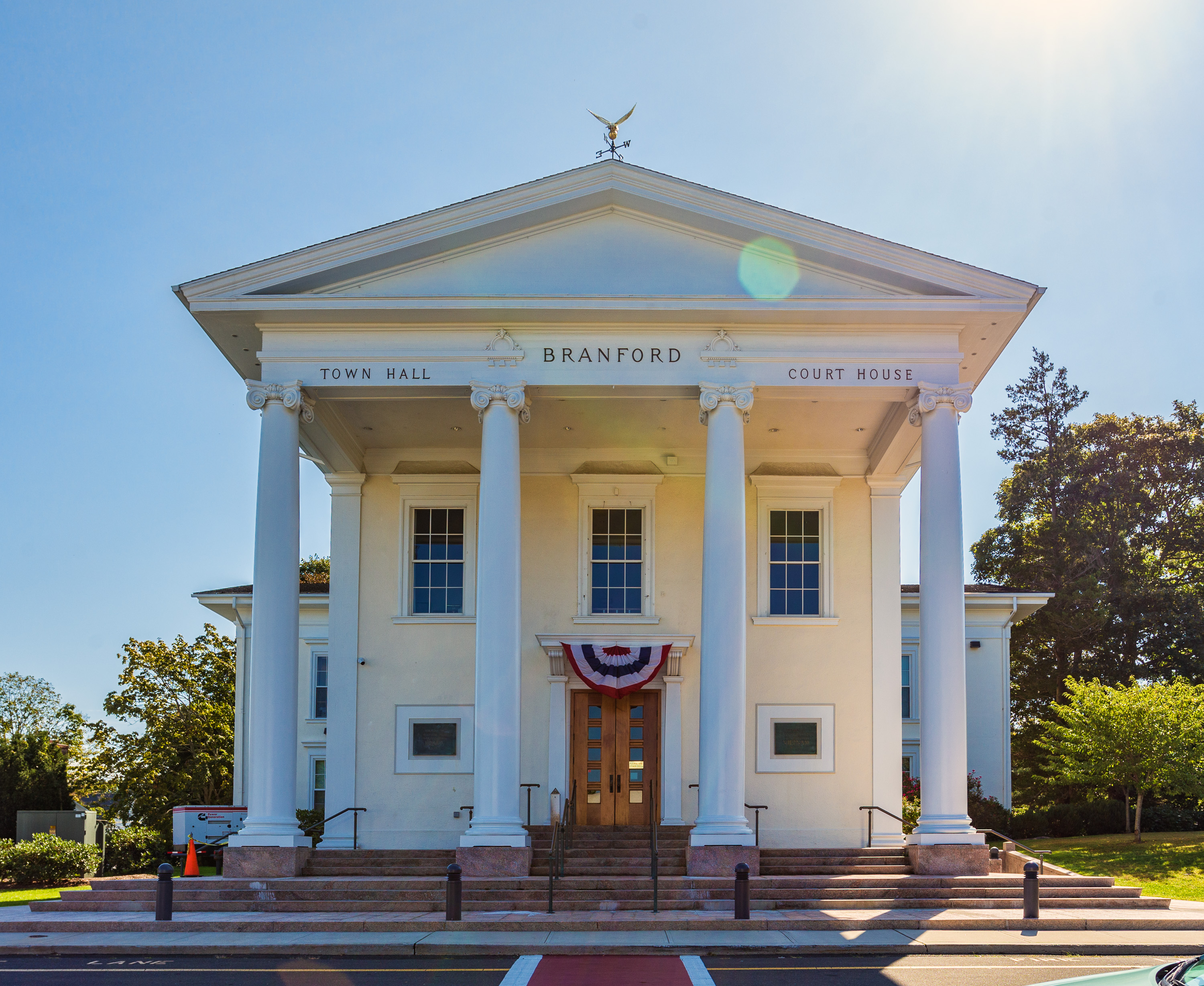 Town Hall and courthouse, Branford, Connecticut.